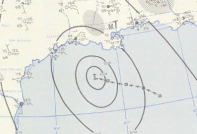 A May 30, 1959 map of the United States Gulf Coast showing Tropical Storm Arlene (1959).